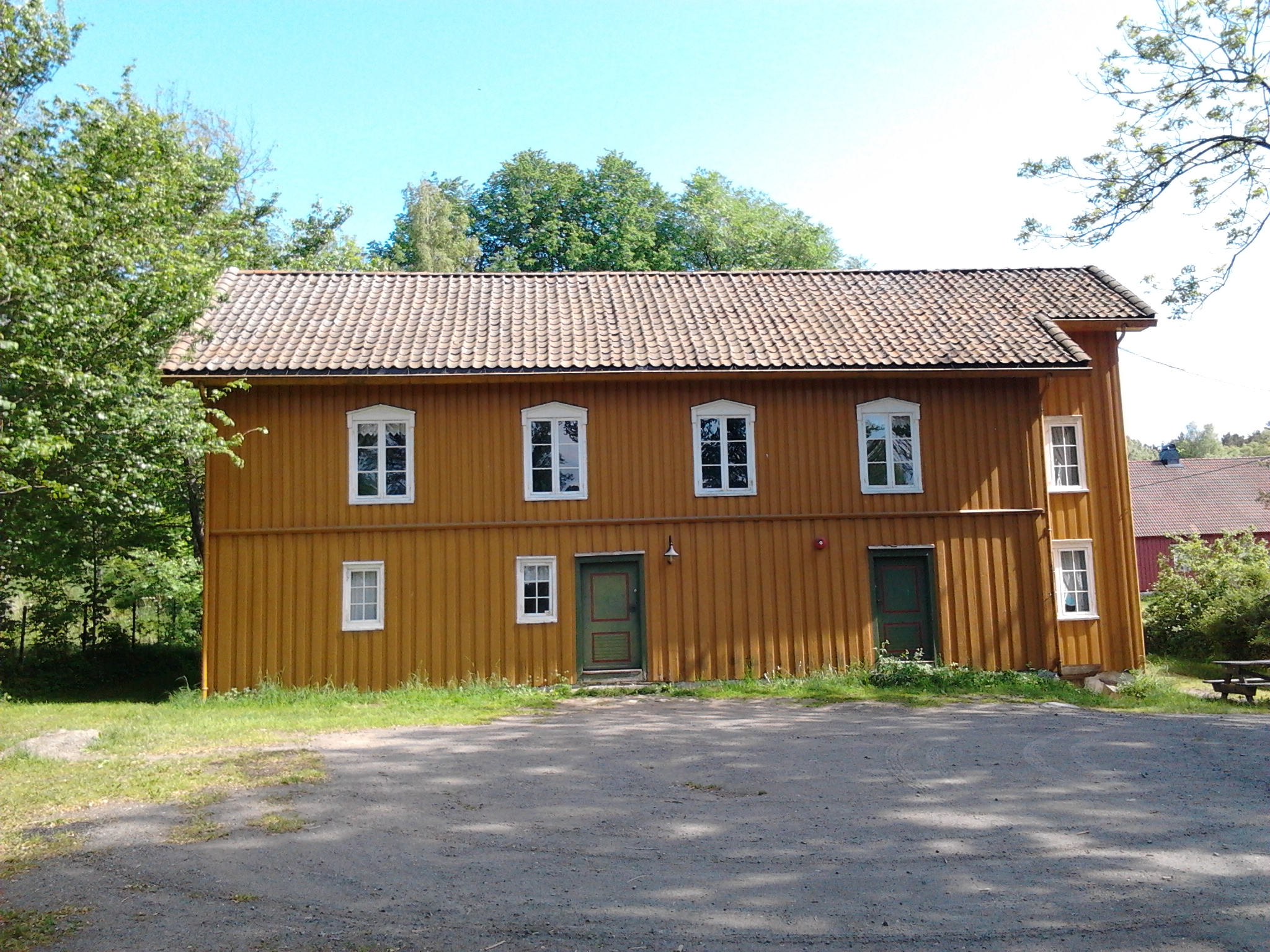 Hove gård at Hove Arendal, Norway